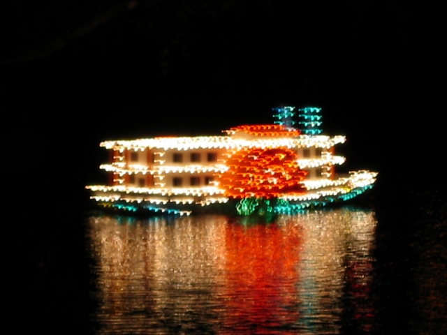 Illuminated boat Matlock Bath's 'Venetian Nights' feature a parade of illuminated boats. This was one of the brightest. A year or two previously there was a miniature Titanic, but unfortunately it sank. Pity I missed that photo.